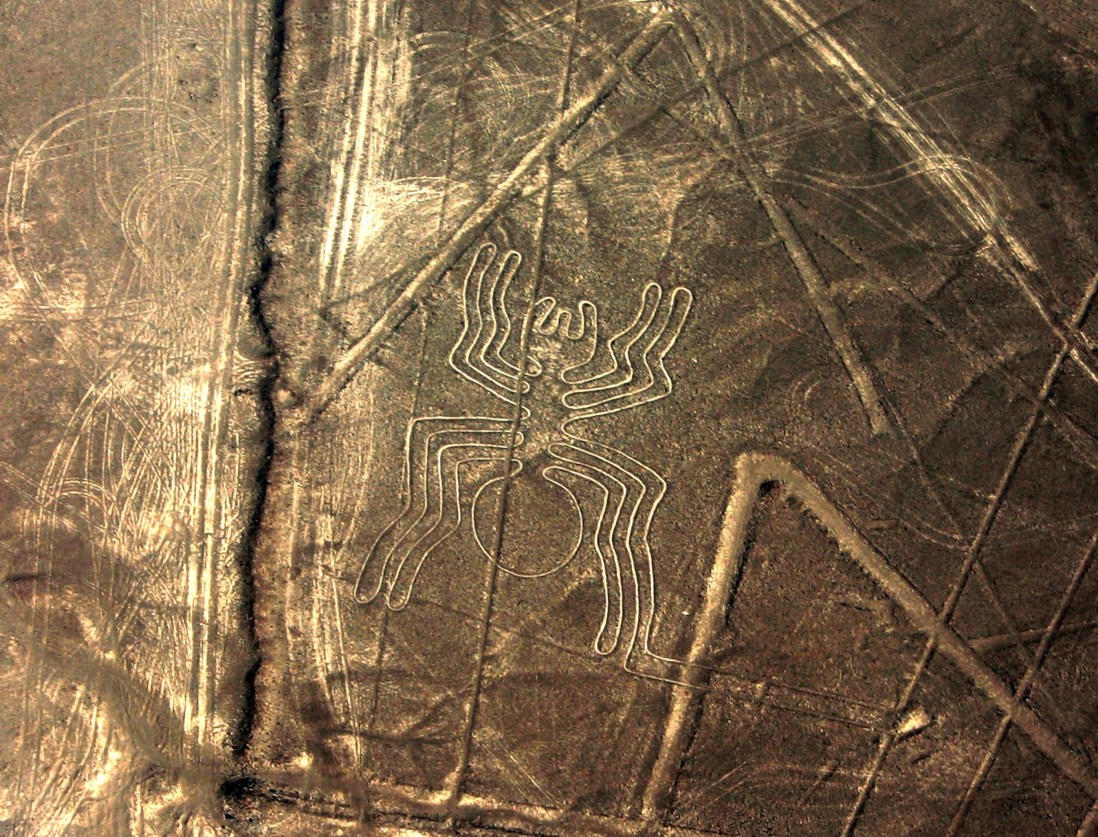 Nazca lines, Peru, South America